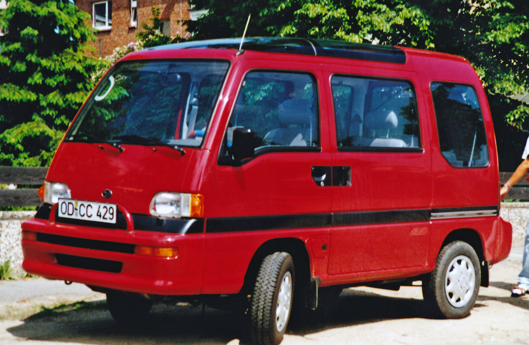 Subaru Libero in Schleswig-Holstein, 1996.